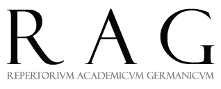 Projectlogo